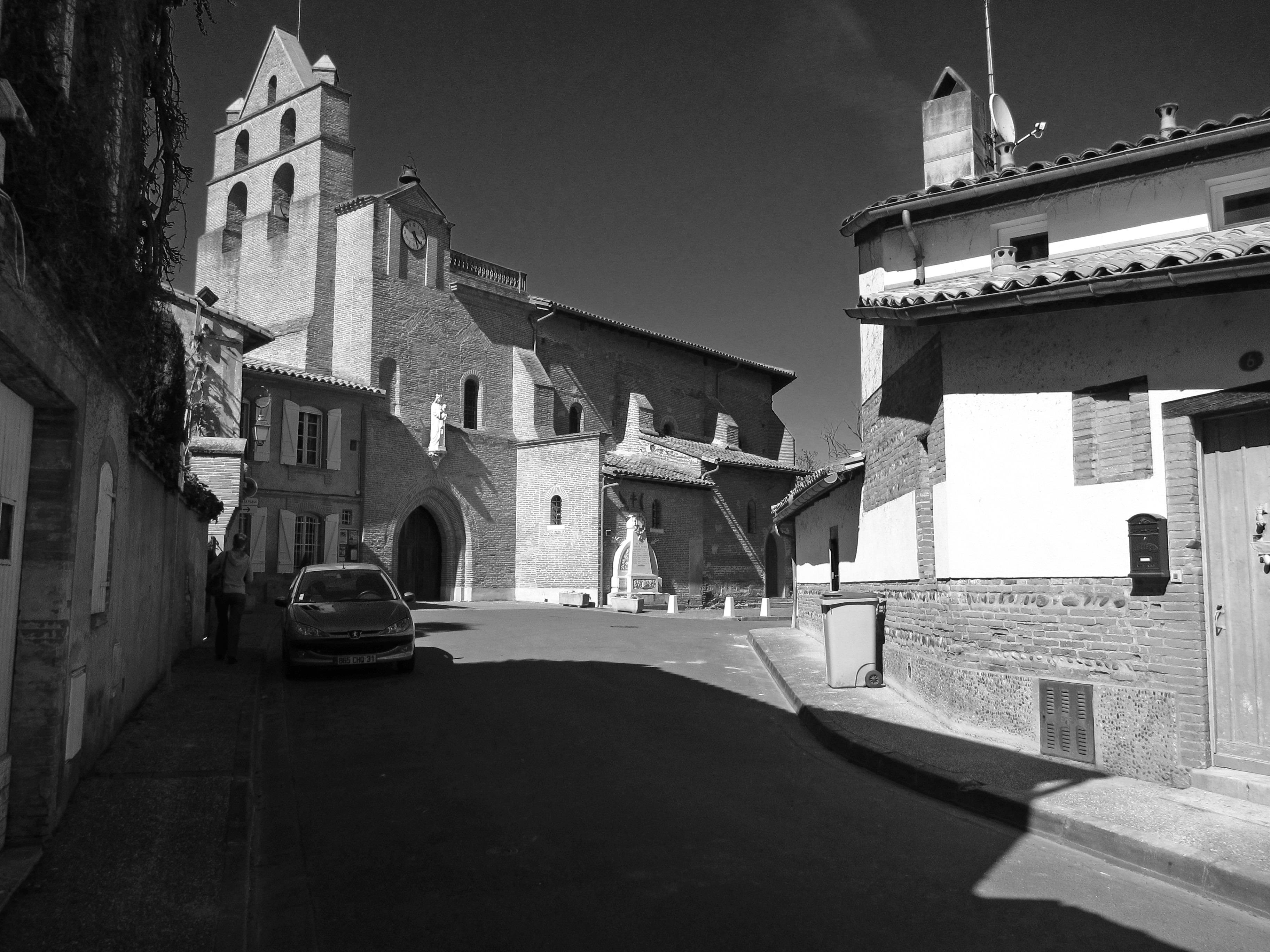 Beauzelle (Haute-Garonne, Midi-Pyrénées, France) : La rue de l'Église.